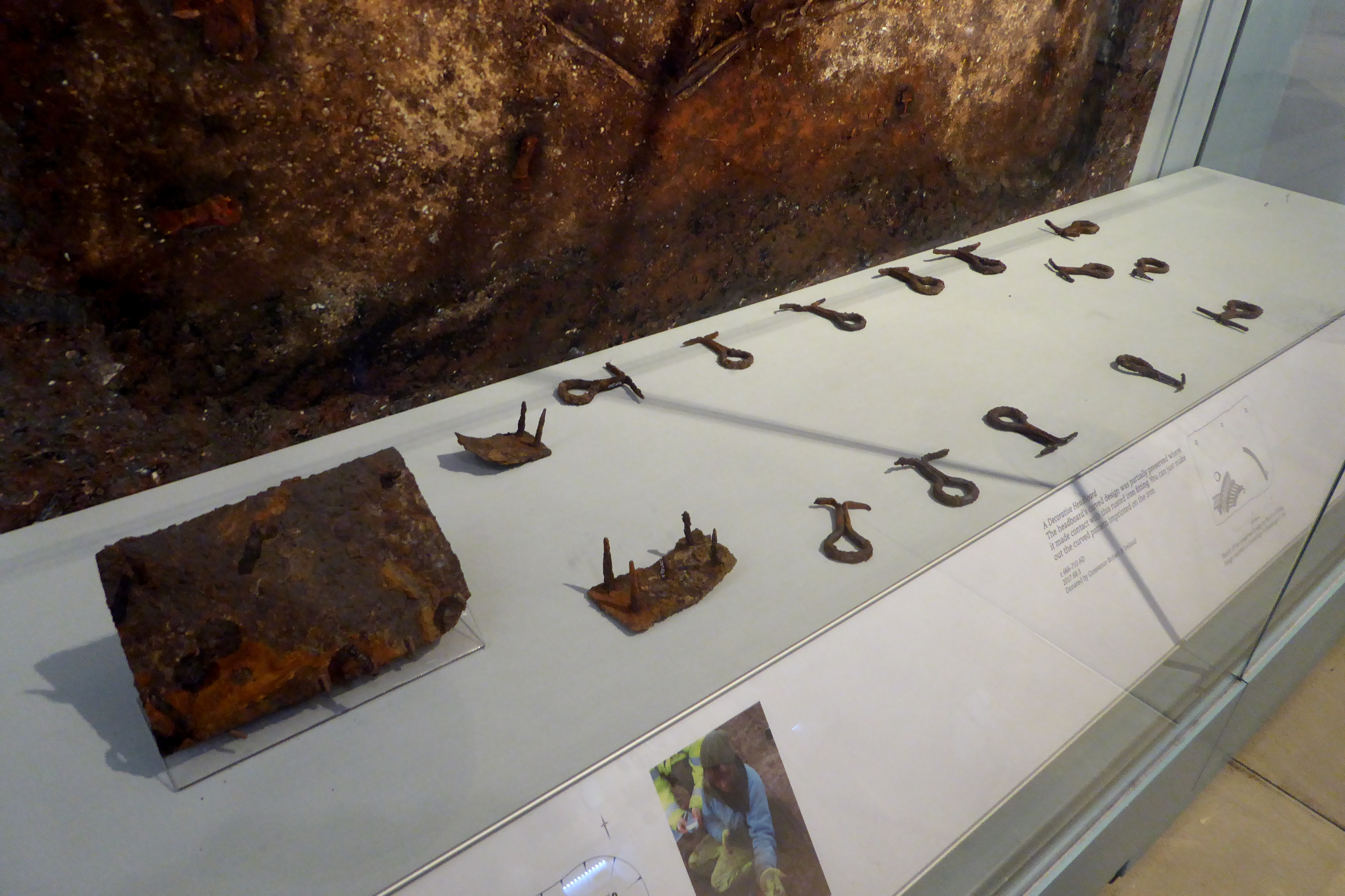 Iron Fittings from the Trumpington Bed Burial, Cambridgeshire. On display in the Cambridge University Museum of Archaeology and Anthropology.